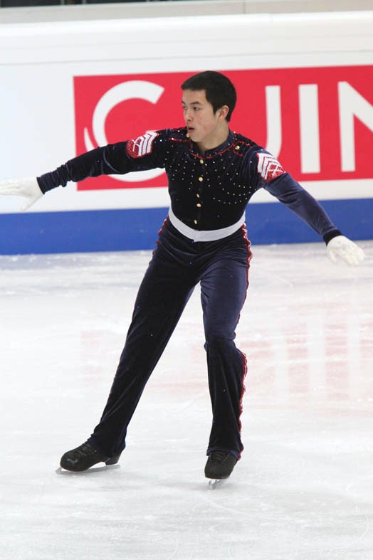 Boyito Mulder at the 2011 European Figure Skating Championships.